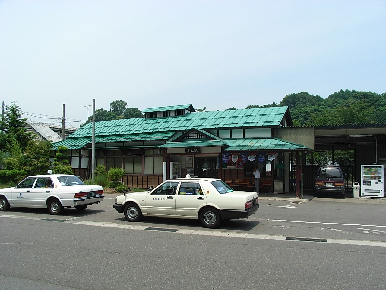 Mure Station on the Shinano Railway Kita-Shinano Line in 492-2 Mure, Iizuna Town, Kamiminochi District, Nagano Prefecture, Japan